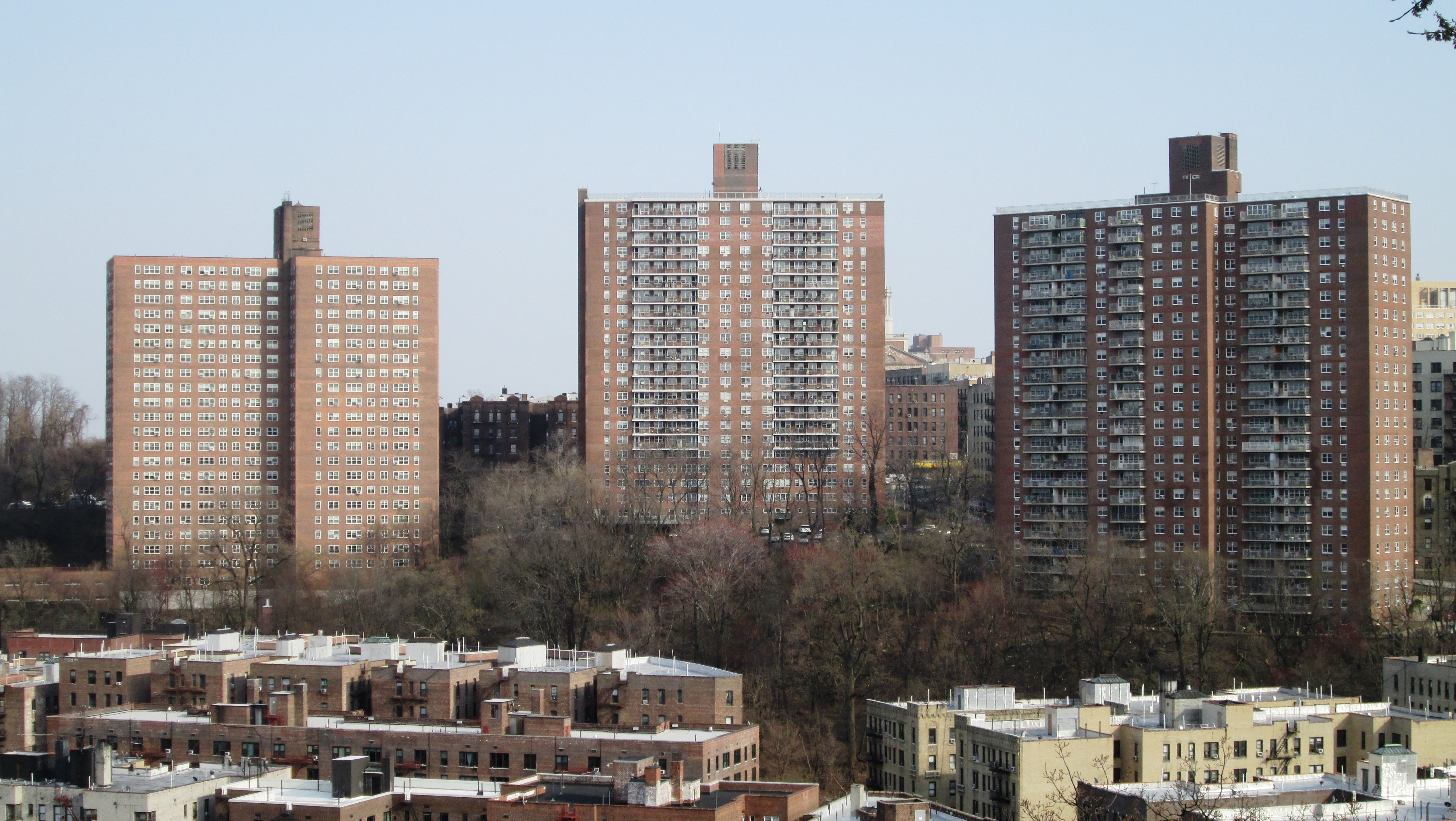 A view of the Dyckman Houses of the New York City Housing Authority, from the parking lot of the New Leaf restaurant in Fort Tryon Park in Upper Manhattan.